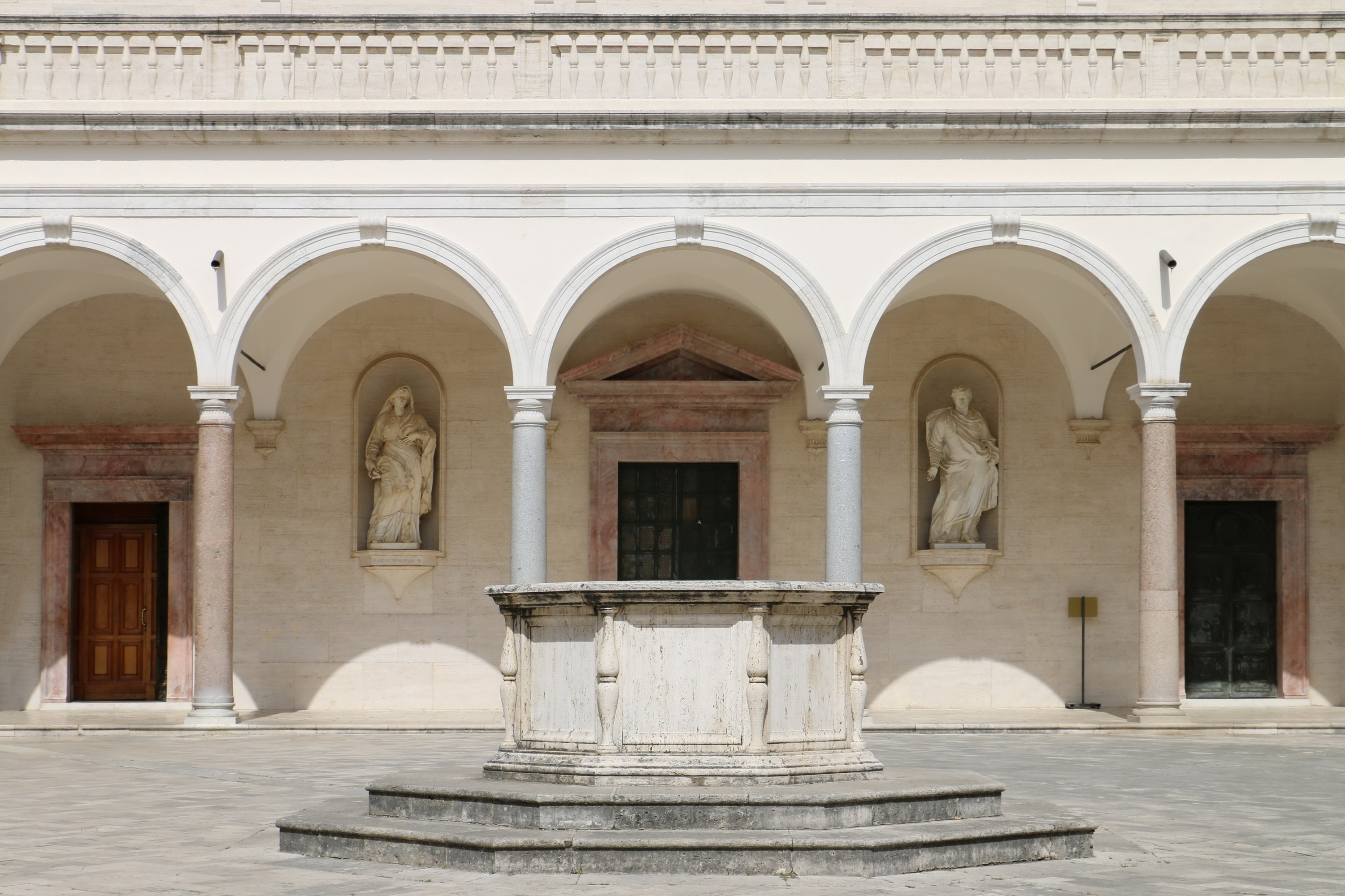 Abbey of Monte Cassino Native nameAbbazia di MontecassinoLocationMontecassino, Lazio, ItalyCoordinates41° 29′ 29″ N, 13° 48′ 52″ E Authority control VIAF: 223343083 LCCN: n80001255 GND: 1002981-3 SUDOC: 030113083 BNF: 12159420j WorldCat